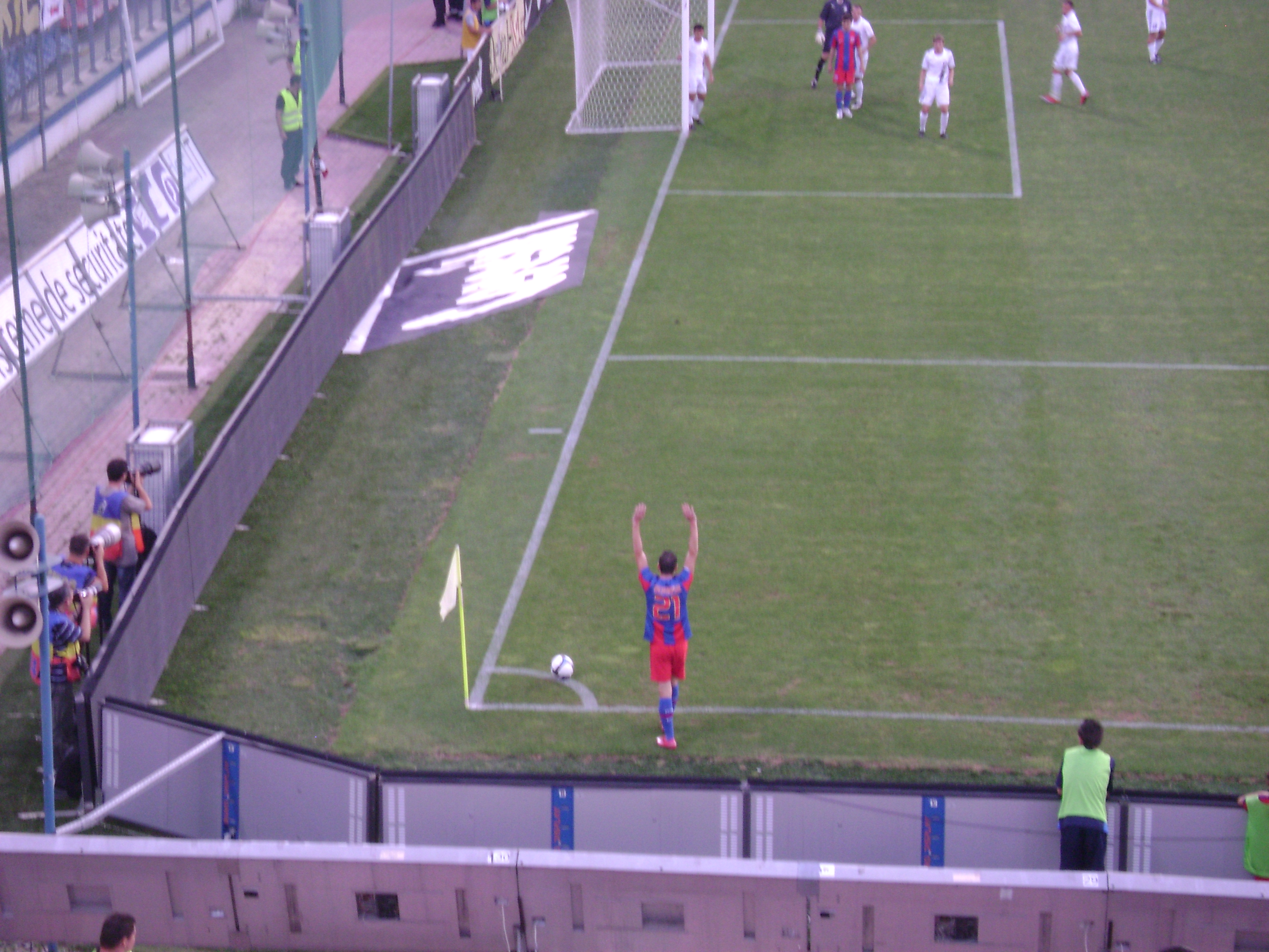 Răzvan Ochiroşii